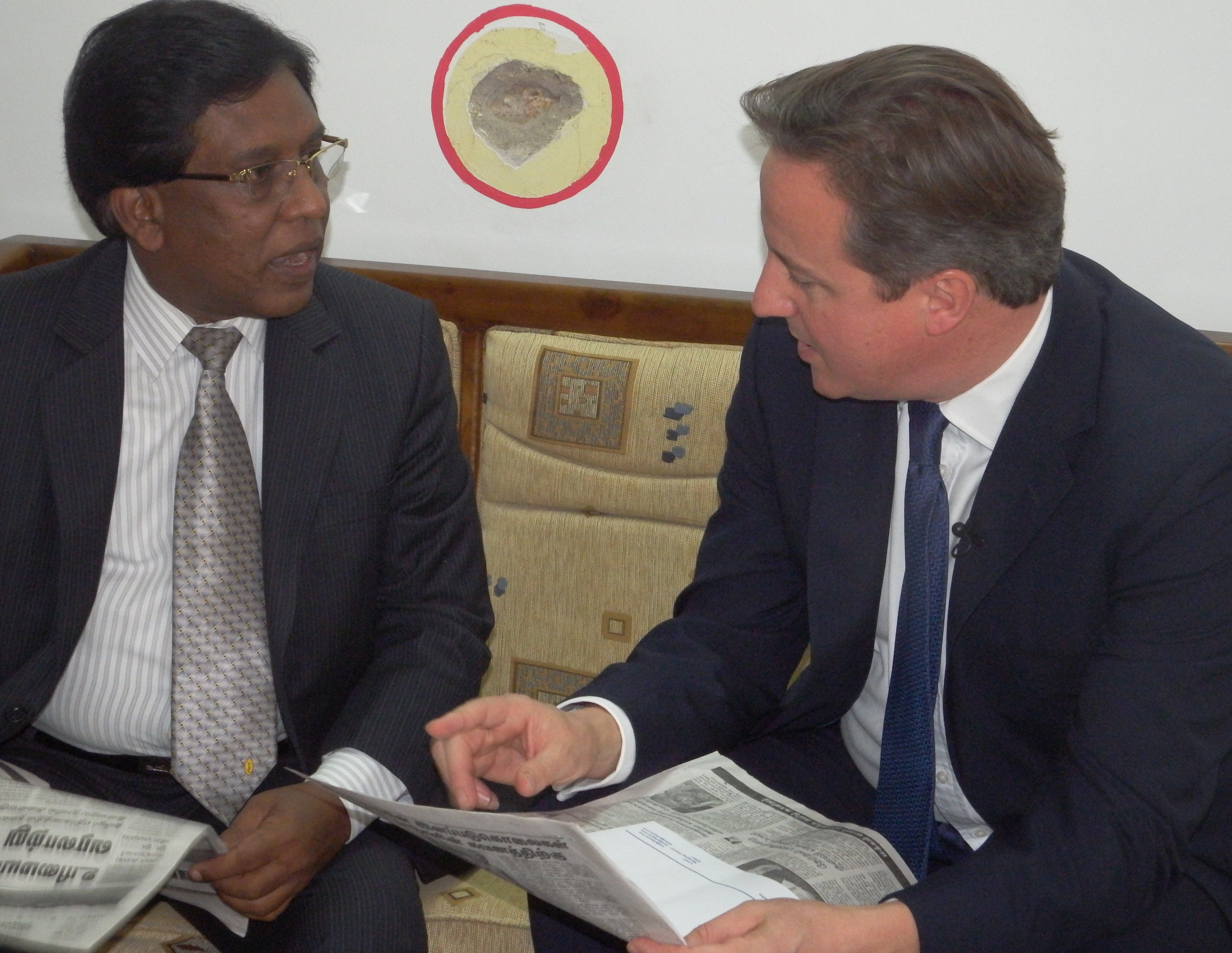 British Prime Minister David Cameron is holding Uthayan newspaper while discussing with E. Saravanapavan, the Managing Director of the Uthayan newspaper during his visit to Jaffna on 15 November 2013. One of the bullet holes is visible on the wall behind them.